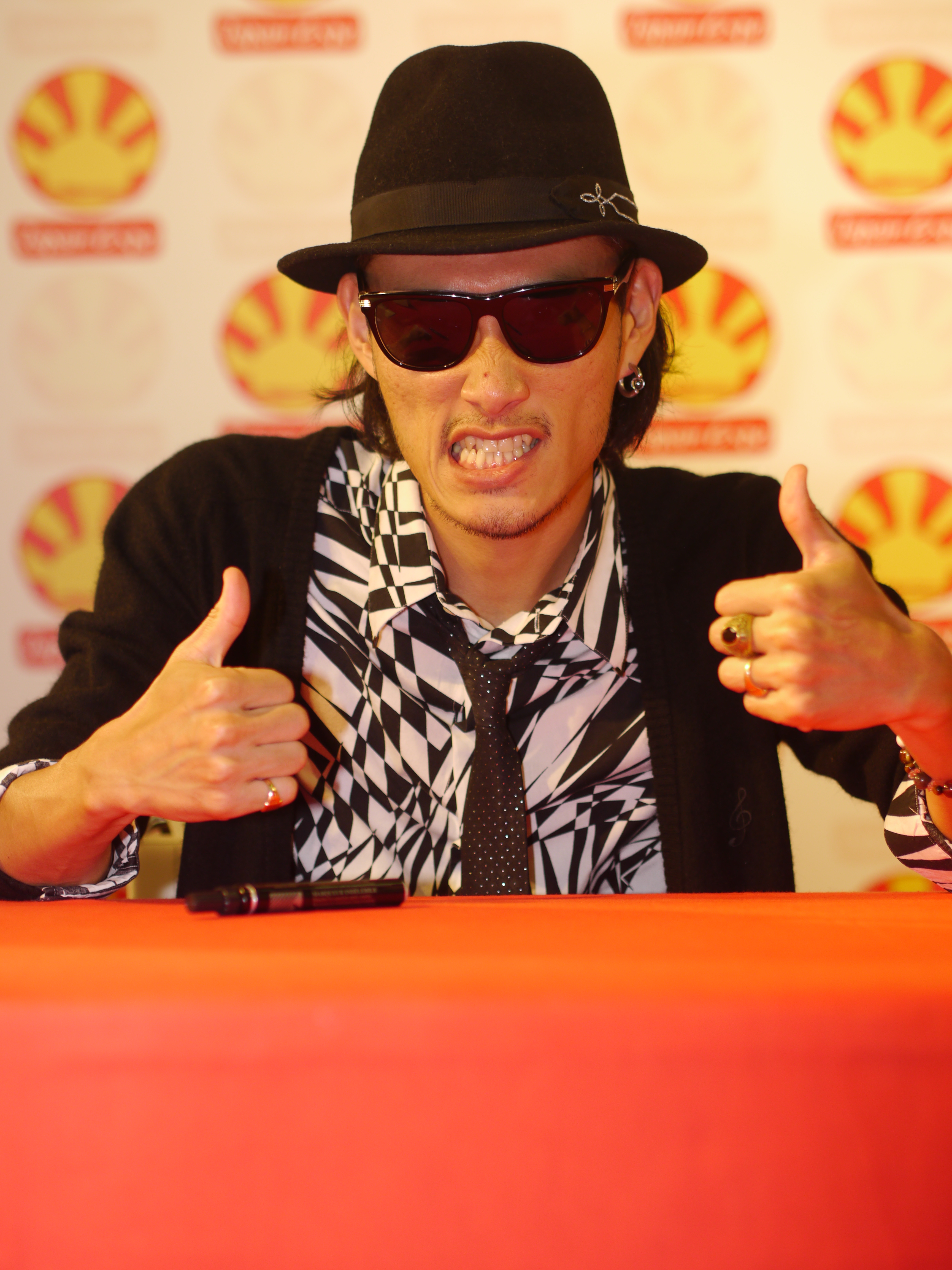 Japan Expo Festival, 13th impact